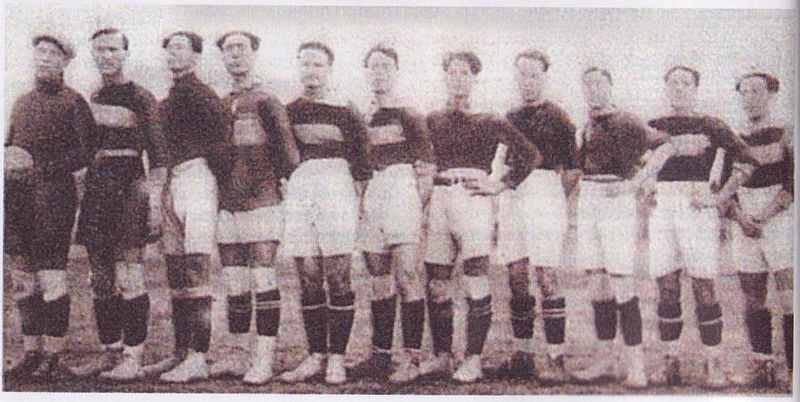 SalernitanAudax 1924-1925